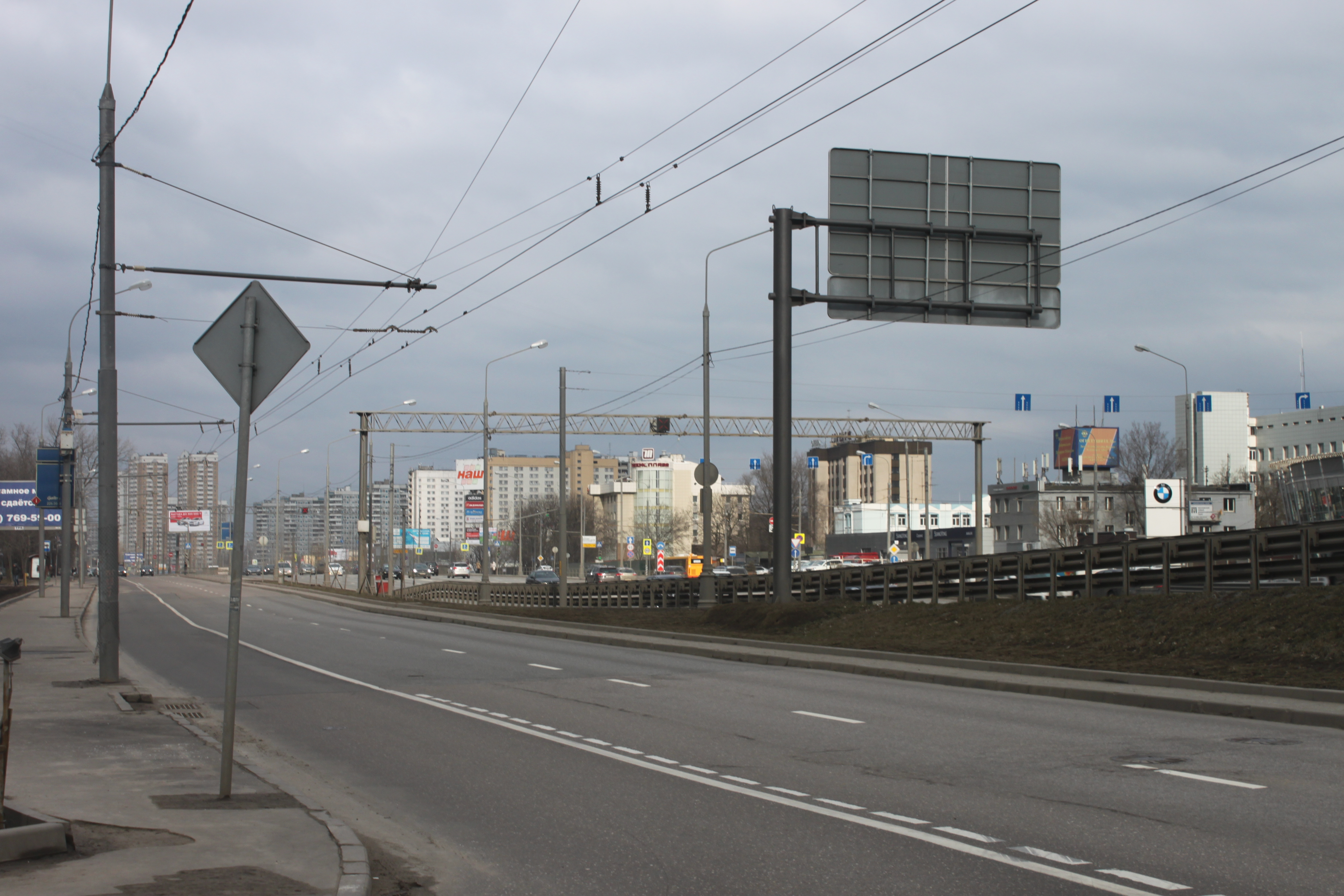 Yaroslavskoye Highway (2015-04-05)